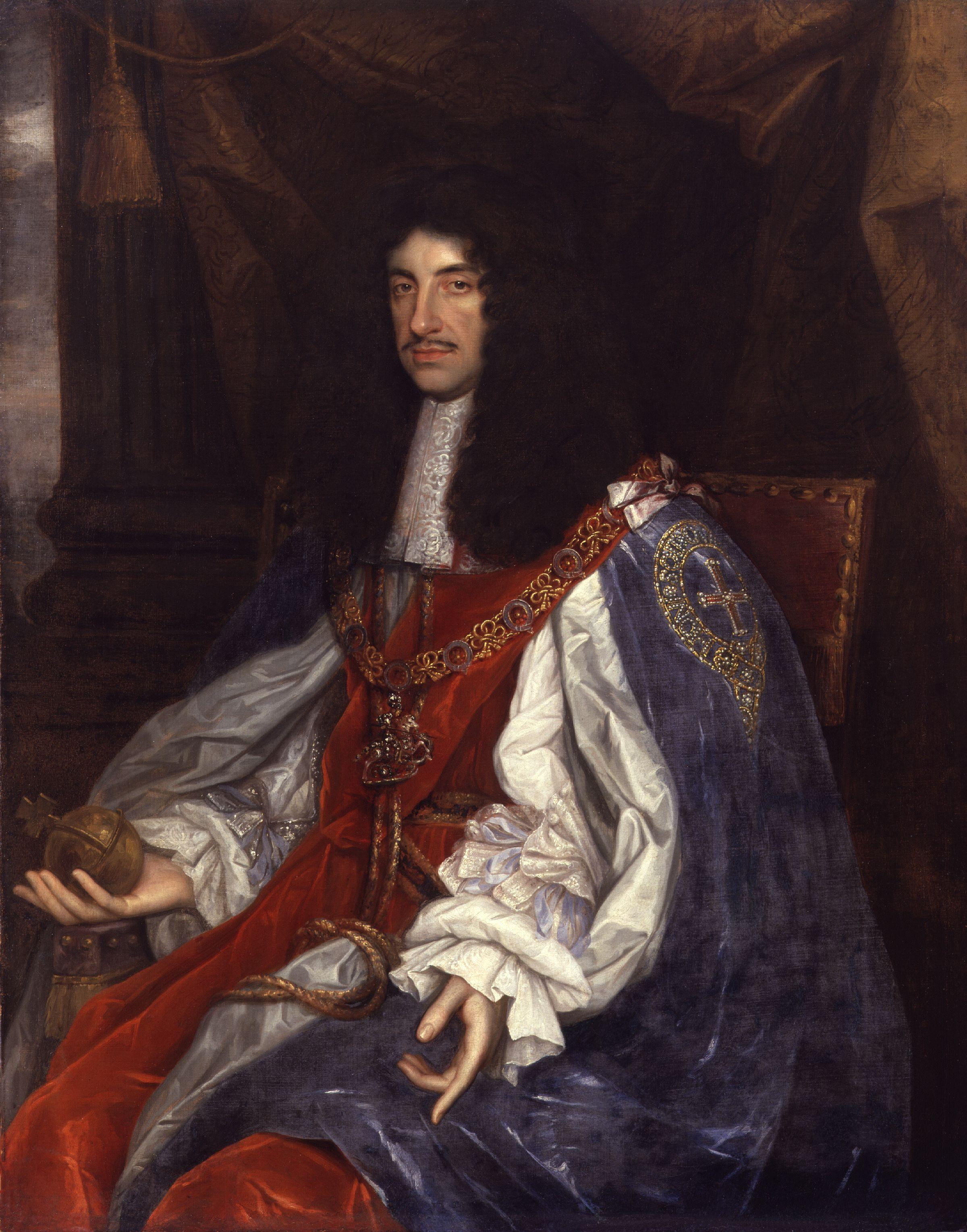 All images in this batch have a known author, but have manually examined for strong evidence that the author was dead before 1939, such as approximate death dates, birth dates, floruit dates, and publication dates.